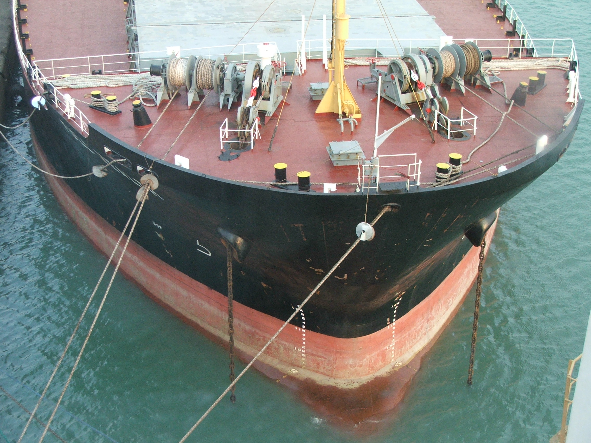 forecastle of a bulk carrier